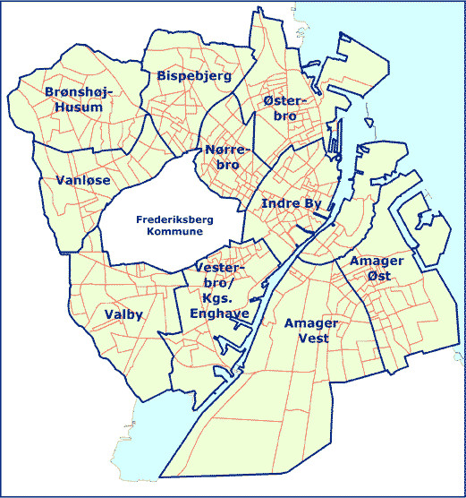 This is a map of the 10 official districts (bydele) of Copenhagen.